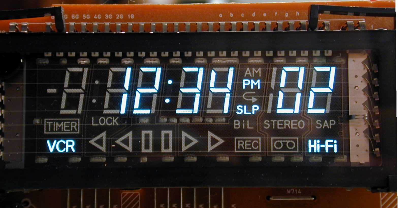 A vacuum fluorescent display from an entirely-typical VCR (video cassette recorder).